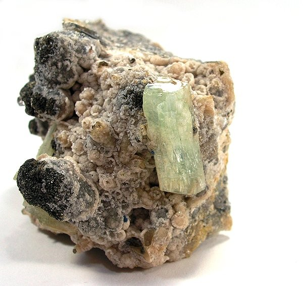 Paravauxite Locality: Siglo Veinte Mine (Siglo XX Mine; Llallagua Mine; Catavi), Llallagua, Rafael Bustillo Province, Potosí Department, Bolivia (Locality at ) Size: 5 x 3.6 x 3.2 cm. A huge, unusually fat, doubly-terminated crystal of this very rare species on matrix. It measures 2.2 cm. Ex. Martin Zinn Collection.